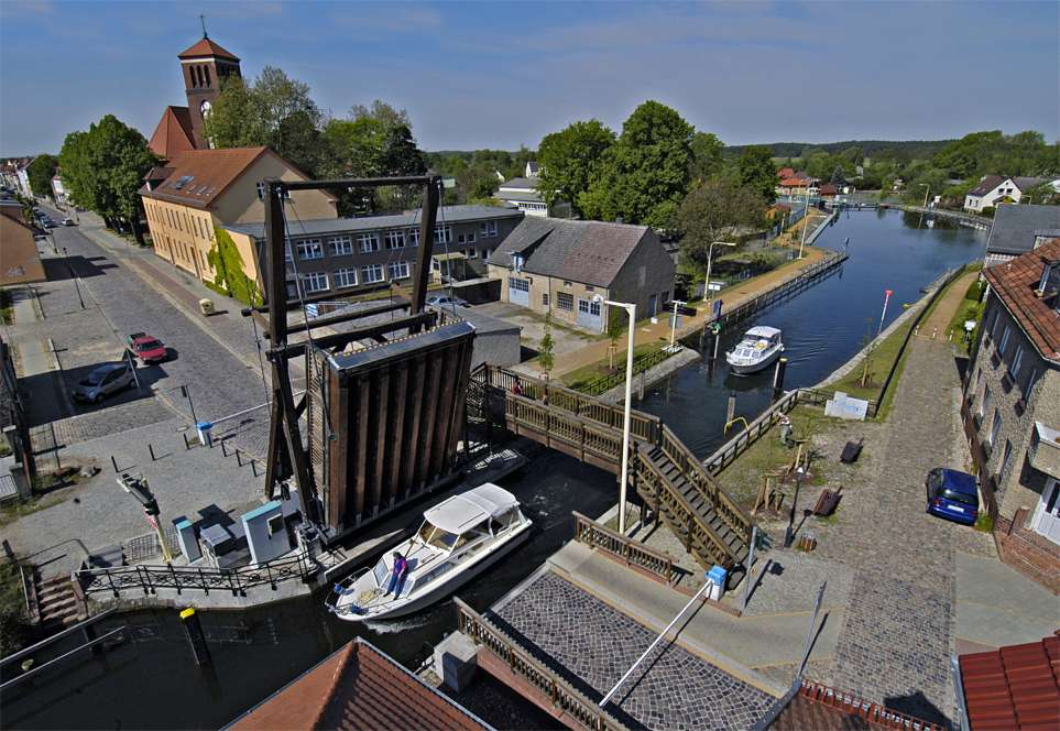 Storkower Kanal in the historical old town of Storkow. The drawbridge was built in 2000/01 instead of a steel-drawbridge from the year 1919. The canal connects the Großer Storkower See with the Wolziger See. Storkow is a town in the District Oder-Spree, Brandenburg, Germany.